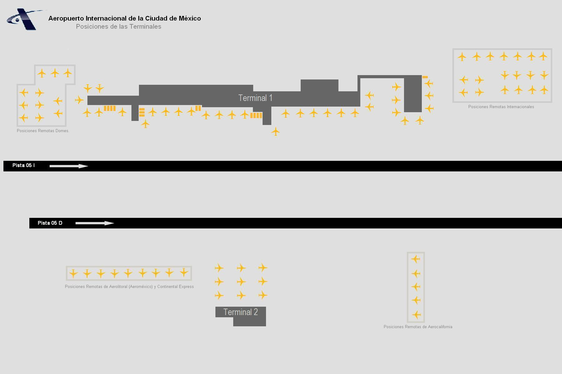 Diagram of the Commercial Area of MEX before construction of new T2. Not scale.